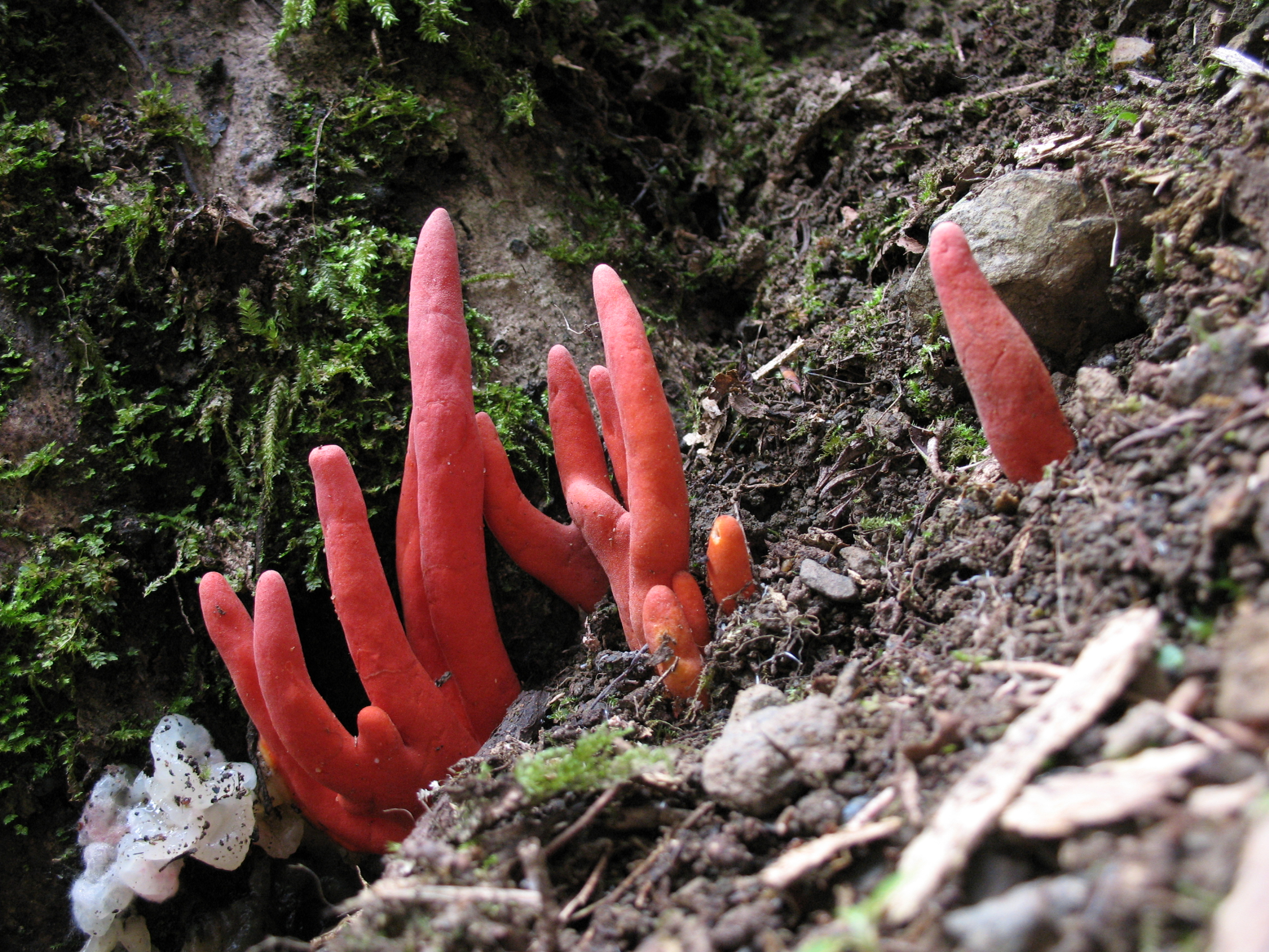 One of the pictures taken at Ashiu Kyoto, Japan.